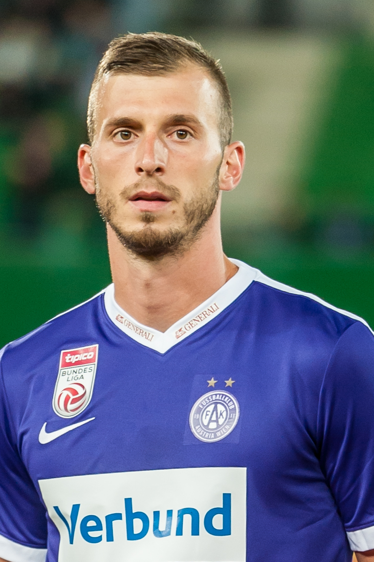 UEFA Europa League - FK Austria Wien vs FK Kukesi, 2016-07-14.